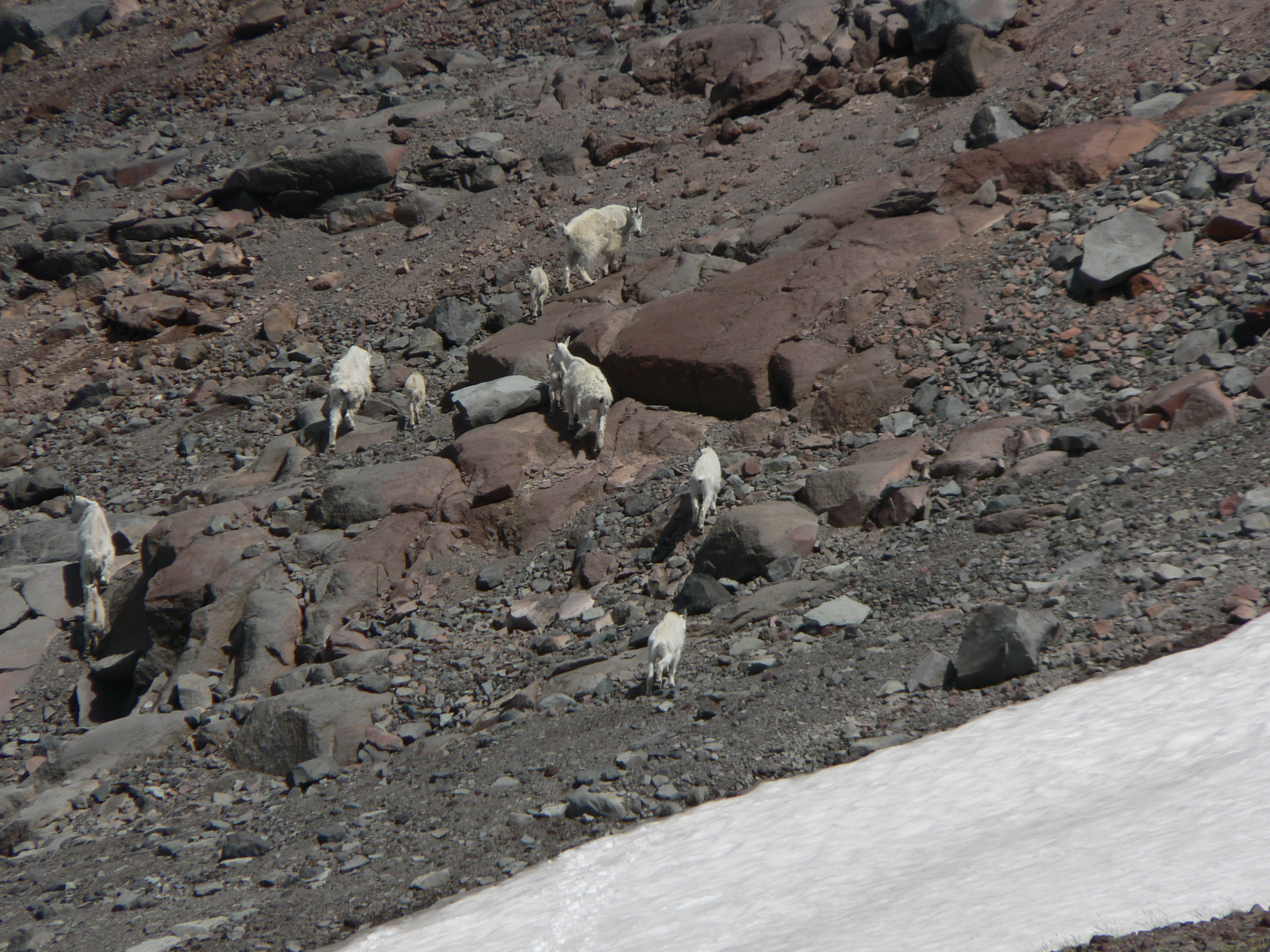 Mountain Goat